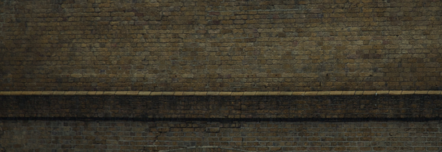 A London stock brick wall